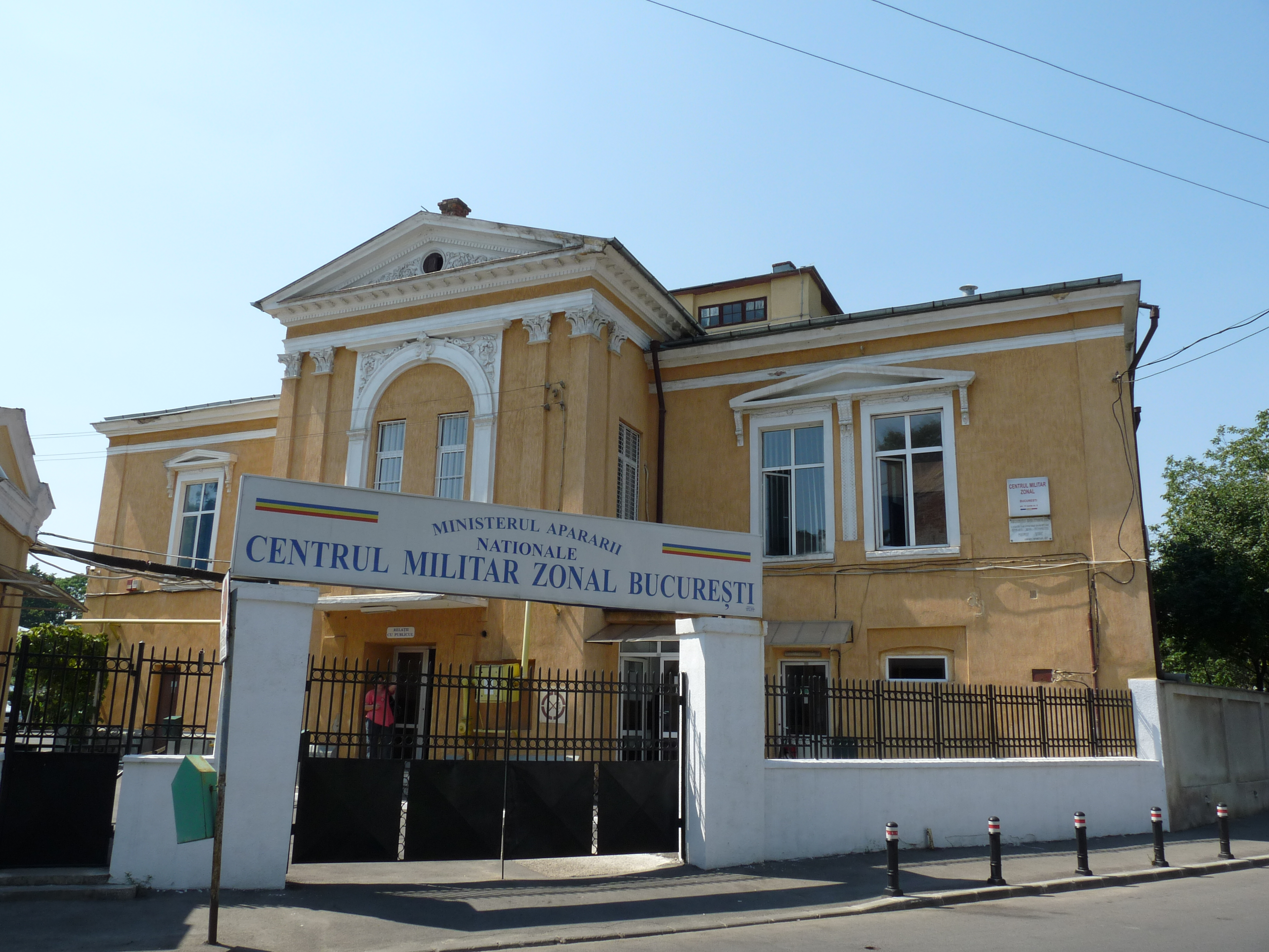 Metropolitan Nifon's house in Bucharest, RomaniaRomână: Casa Mitropolit Nifon din Bucureşti, România